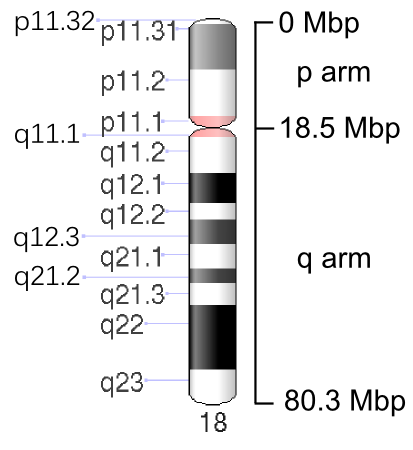 Ideogram of human chromosome 18. G-band, 550 bphs (bands per haploid set). Black and gray: Giemsa positive. Red: Centromere. Light blue: Variable region. Dark blue: Stalk. Mbp: Mega base pairs.